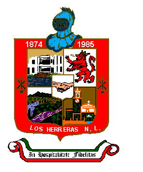 coat of arms herrer nuevo León